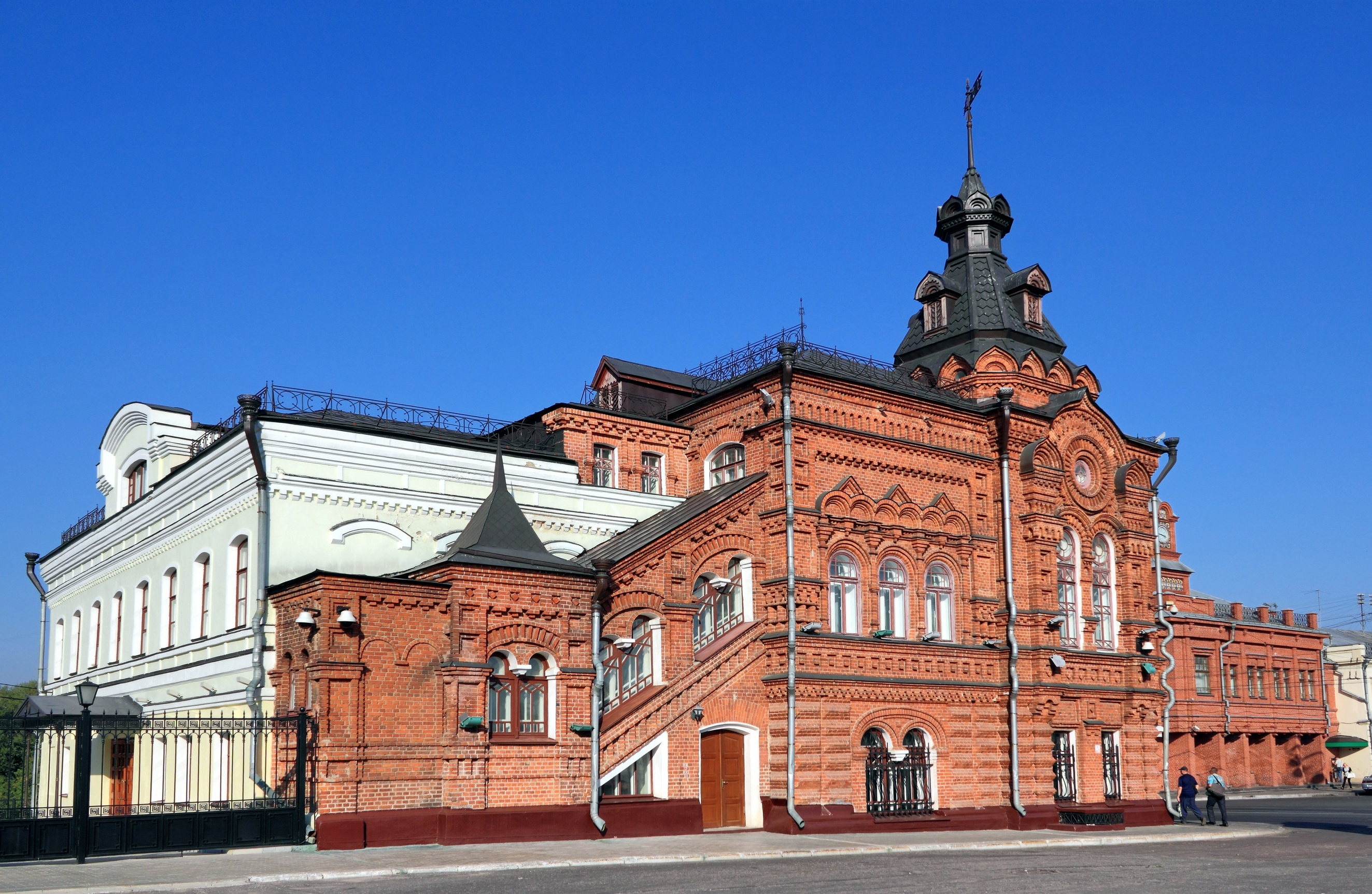 Vladimir. Cathedral Square. The former City Council